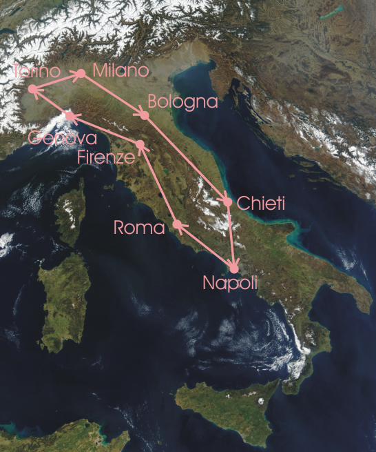 Map of Italy highlighting the stages of 1909 Giro d'Italia